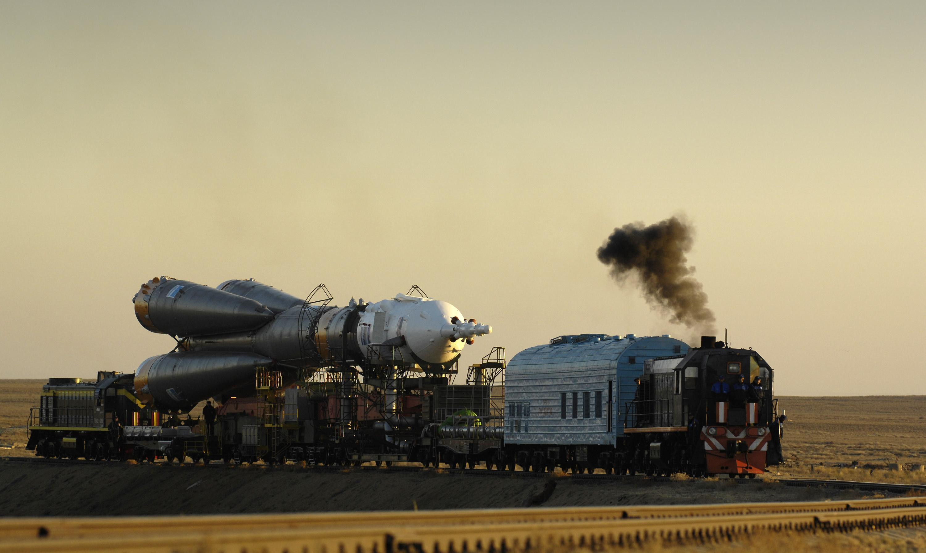 The Soyuz TMA-11 spacecraft was transported by railcar to its launch pad at the Baikonur Cosmodrome in Kazakhstan Oct. 8, 2007, for launch Oct. 10 to carry Expedition 16 Commander Peggy Whitson, Flight Engineer and Soyuz Commander Yuri Malenchenko and Malaysian Spaceflight Participant Sheikh Muszaphar Shukor to the International Space Station. Whitson and Malenchenko will spend six months on the station. Shukor, who is flying under an agreement between Malaysia and the Russian Federal Space Agency, will return to Earth Oct. 21 with two of the Expedition 15 crewmembers currently on the complex.